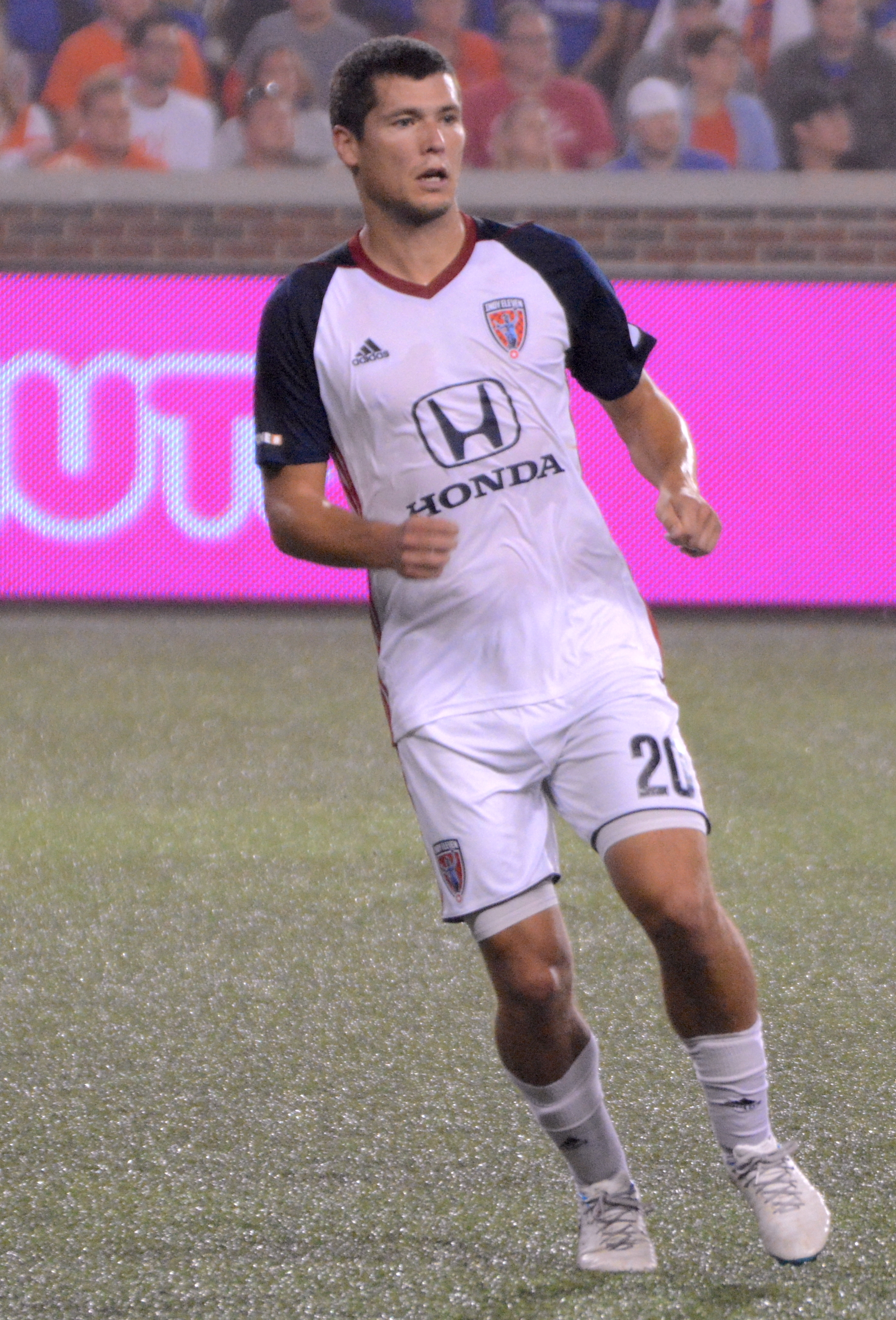 Taken during a USL regular season match between FC Cincinnati and Indy Eleven at Nippert Stadium in Cincinnati, USA on September 29, 2018.